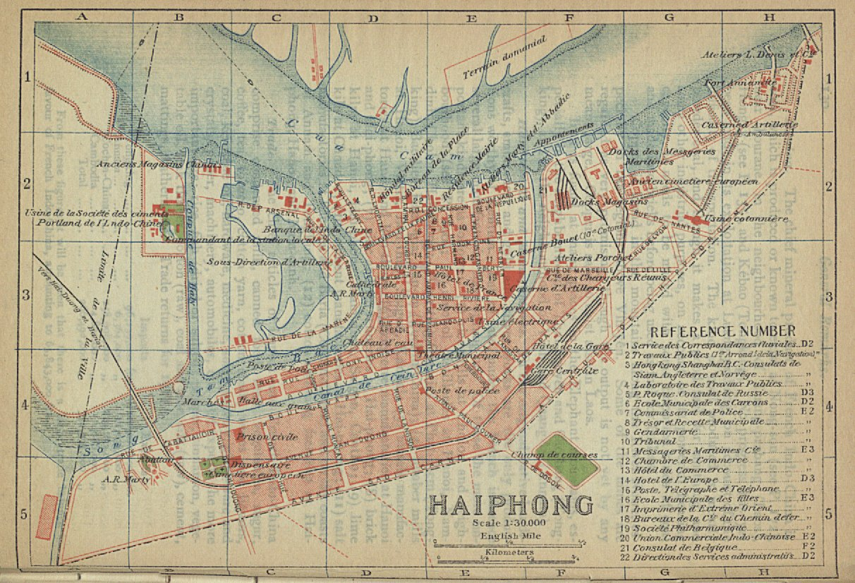 Map of Haiphong printed in a book published by Japanese Department of Railways in 1920 named "An official guide to eastern Asia - vol 5".